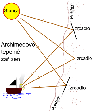 trenslate to czech